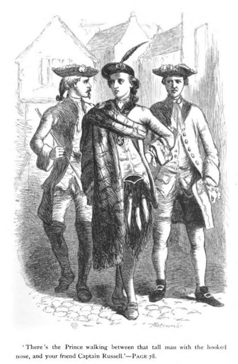 Picture from 1867 children's book